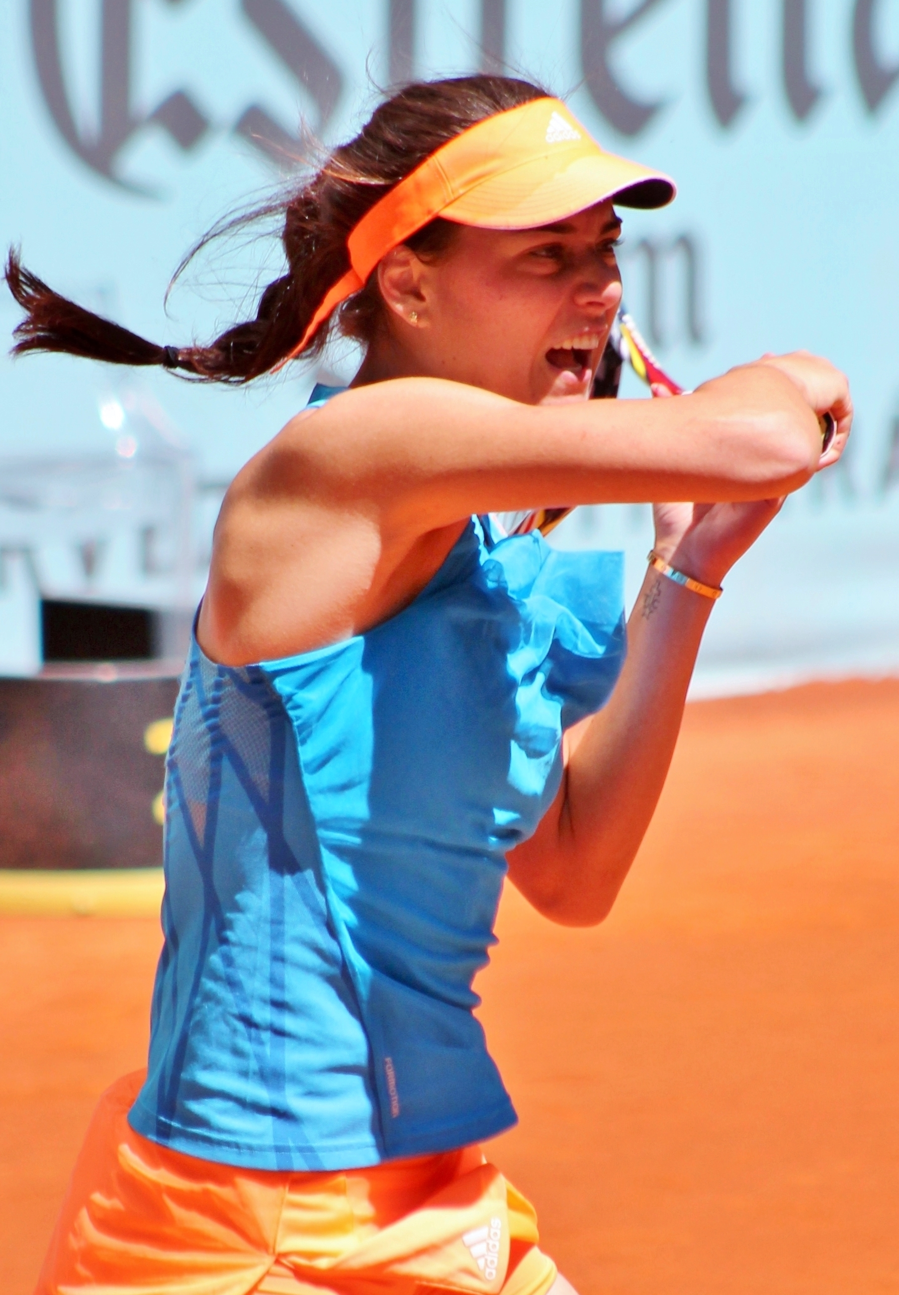 Cirstea MA14 (15)